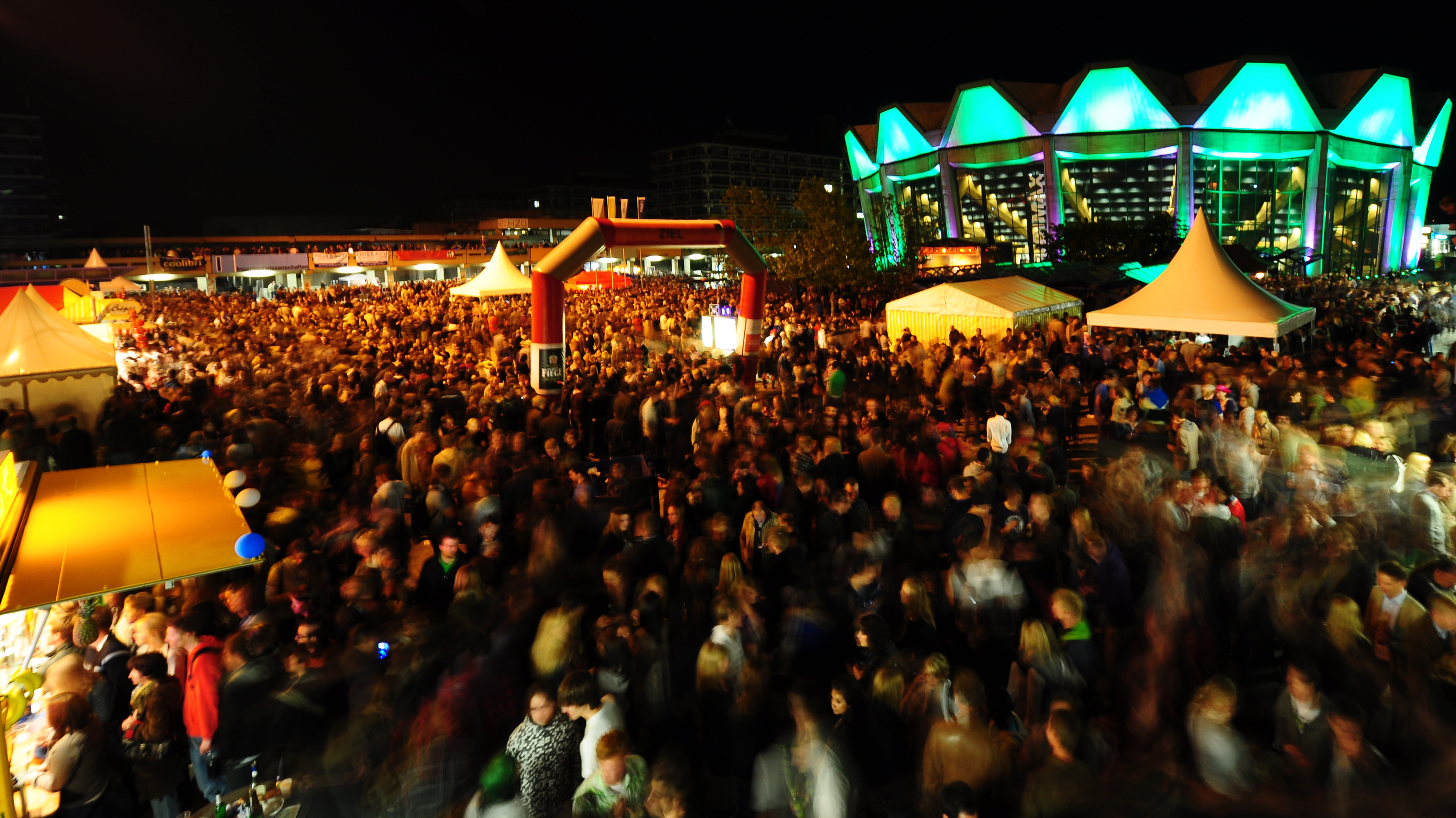 RUBissimo 2010